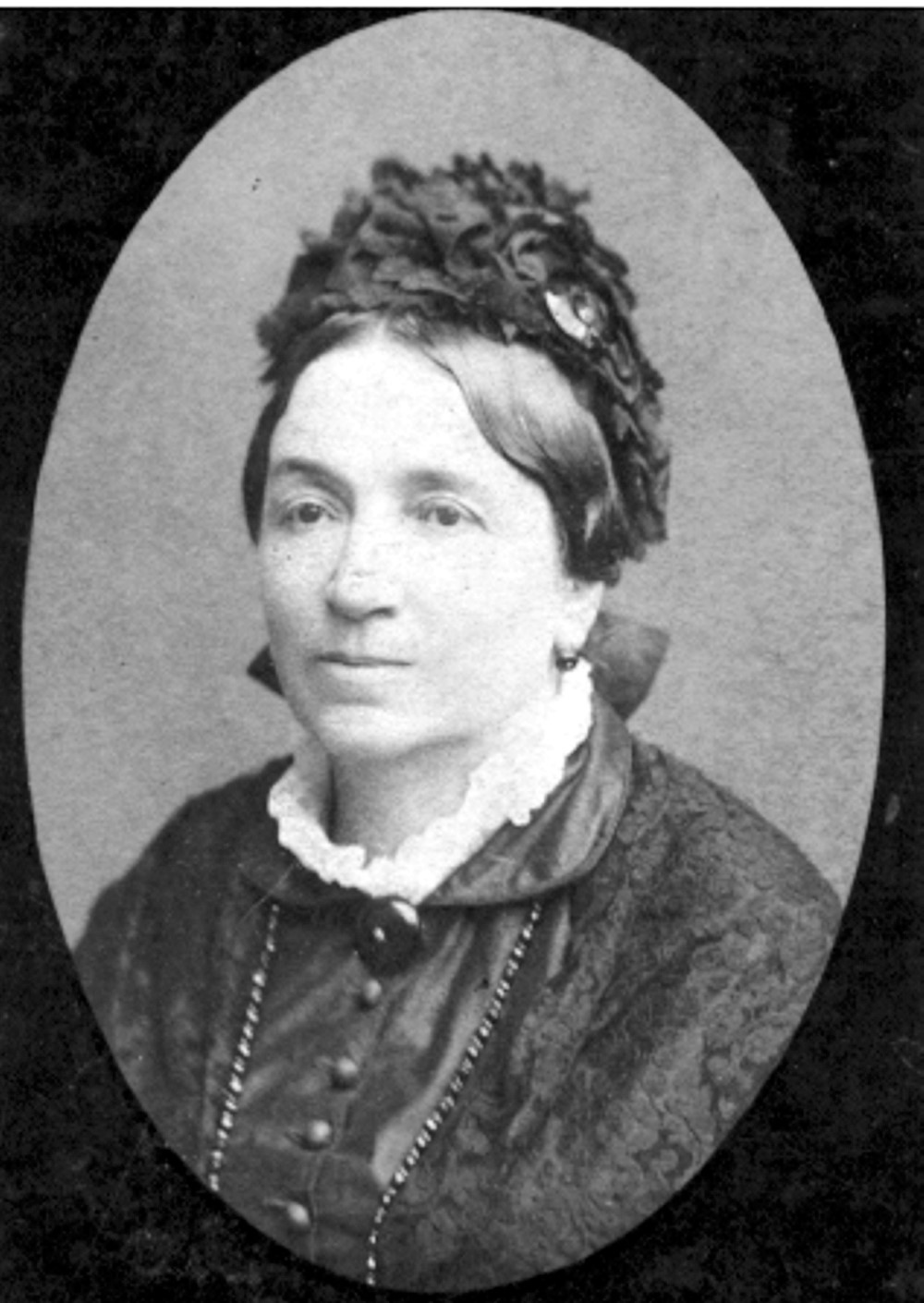 Zathureczky Emília (1824–1905) Founder of the Székely Nemzeti Múzeum.